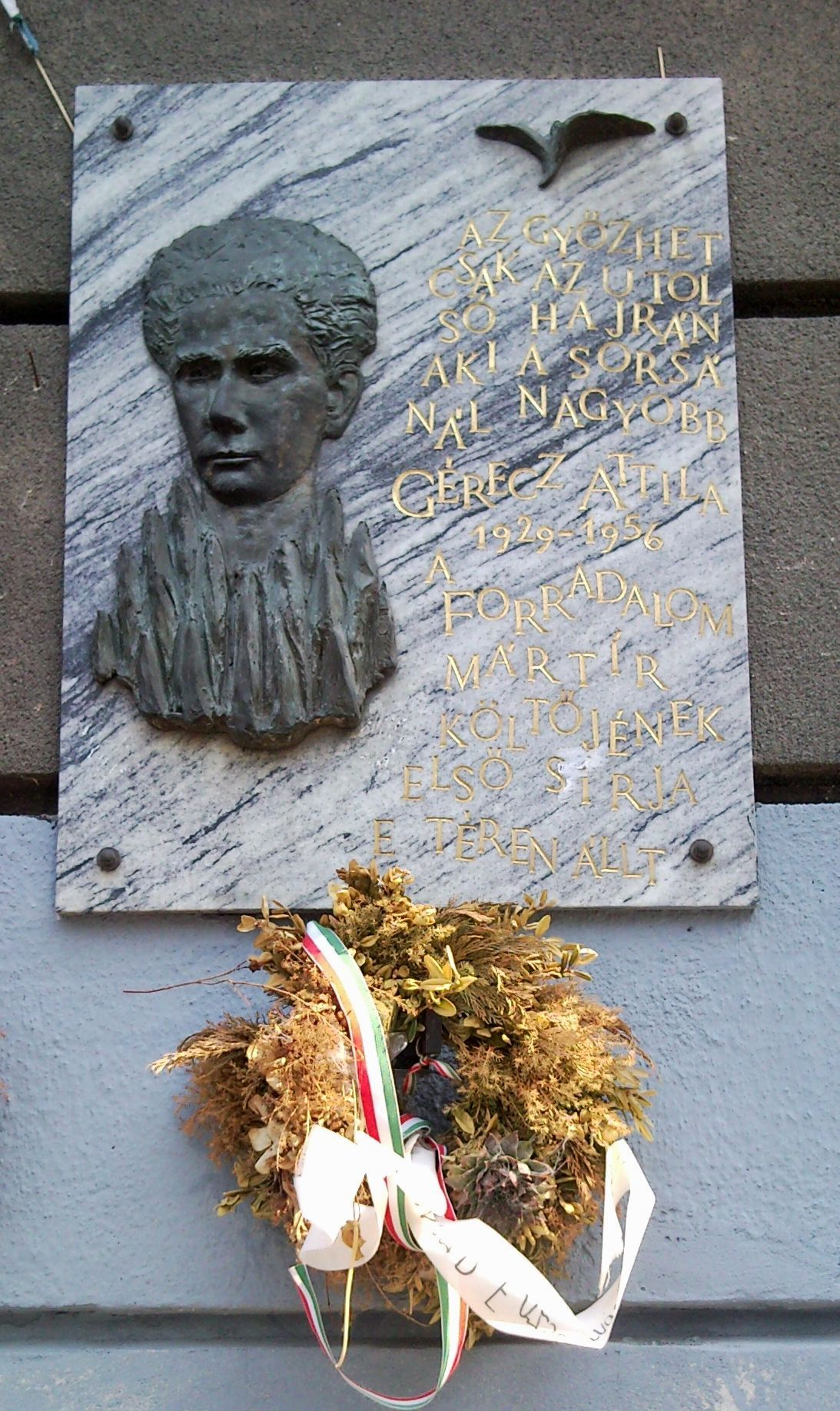 Attila Gérecz commemorative plaque with relief in Budapest District VII, Klauzál Street No 9. Sculptor: Edit Rácz.